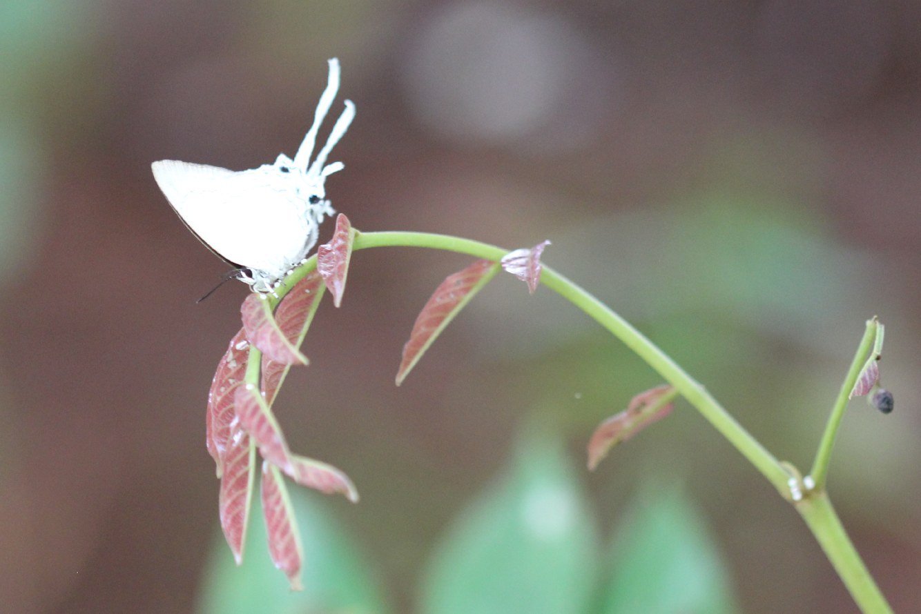 Common Imperial Butterfly